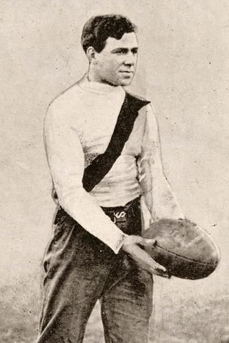 Photograph of Arthur Hiskins from the 1910 Weekly Times Victorian Footballer Postcard Series